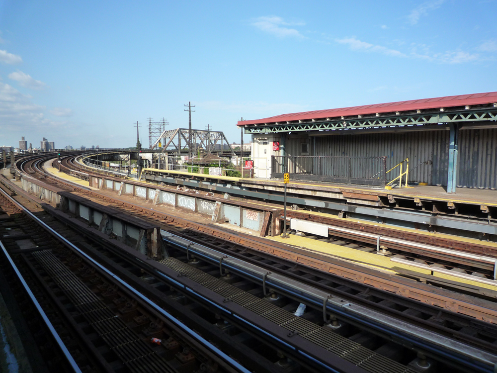 Metro station in the Bronx. Posted in Chicken in the City - Or, How to Have Fun in New York Without Spending Money!